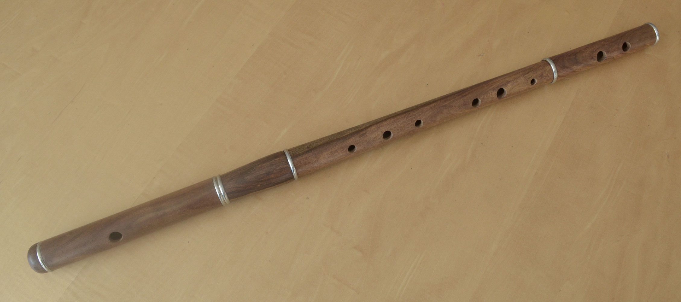 My Irish Wooden Flute, made of Rosewood.